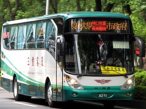 San Chung Bus Co., Ltd. operated "Chang Gung University - Taipei City Hall" line with HINO LRM2PSA structure. 2005-HINO Taken by Sap32aaa at Fuching Street and Tunghua N. Road intersection, Taipei City, Taiwan.